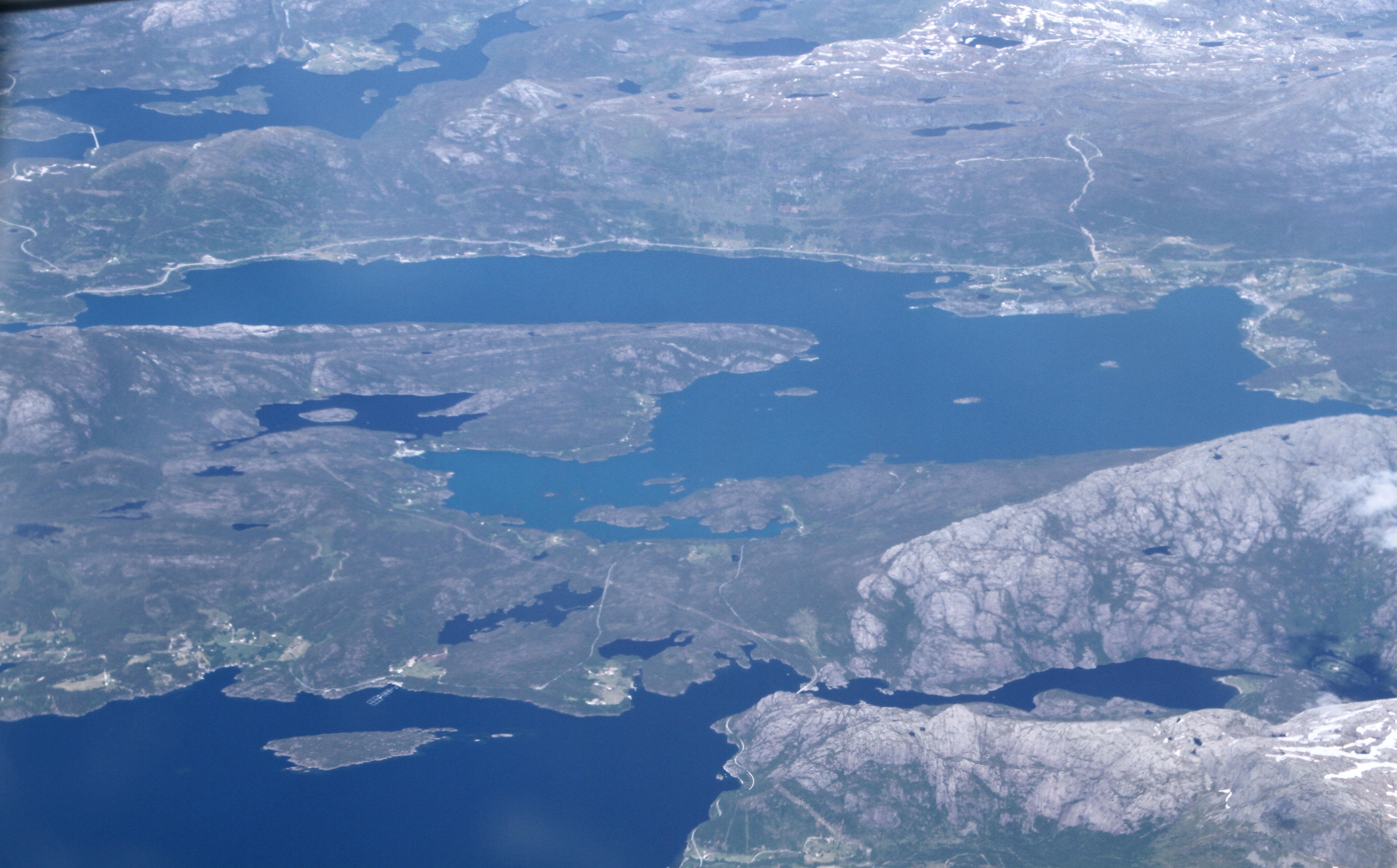 Aerial view from the south / southwest, of the coastal parts of the municipality of Flora, Sogn & Fjordane fylke (county), western Norway.